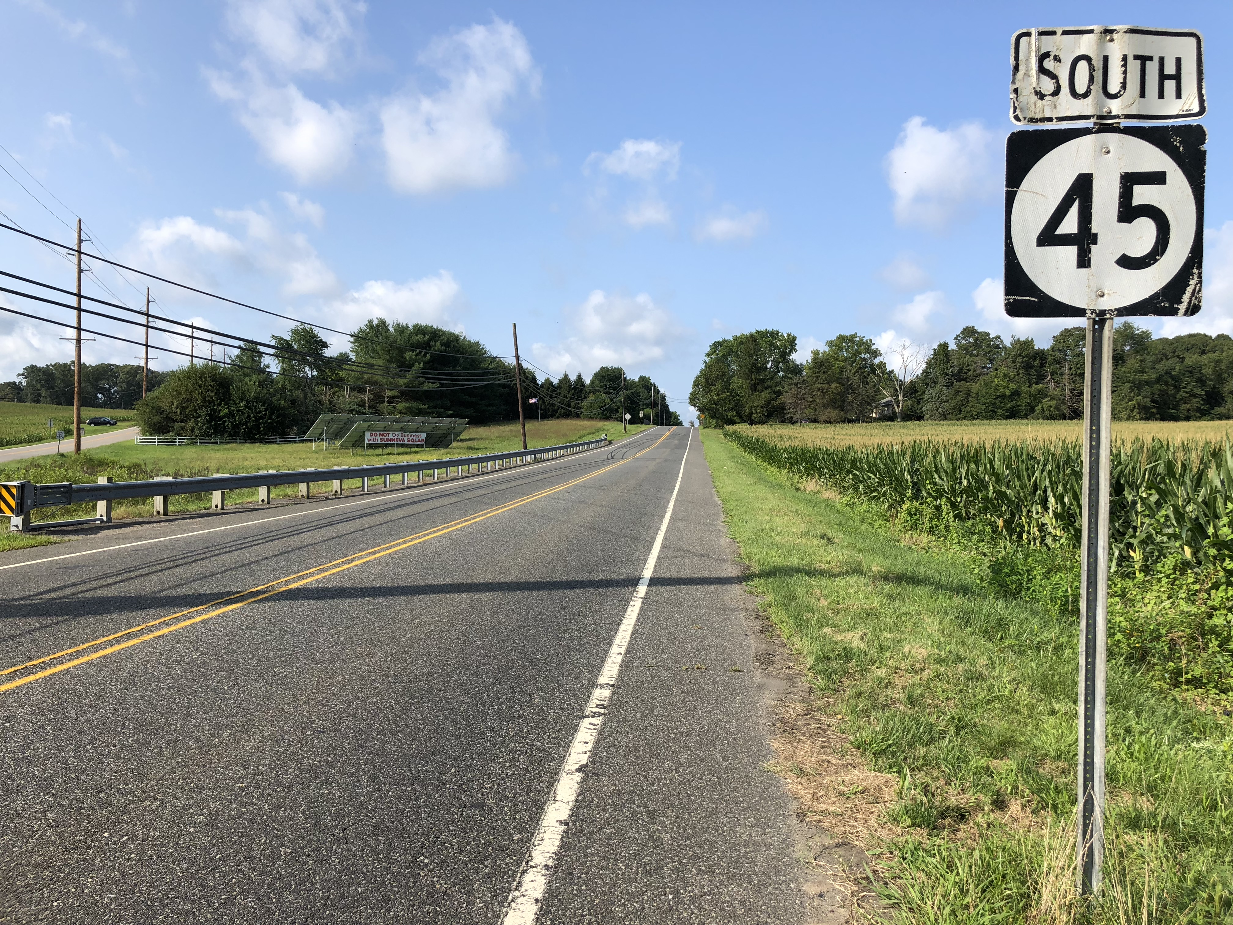 View south along New Jersey State Route 45 (Woodstown-Mullica Hill Road) just south of Gloucester County Route 617 (Mullica Hill Road) in South Harrison Township, Gloucester County, New Jersey